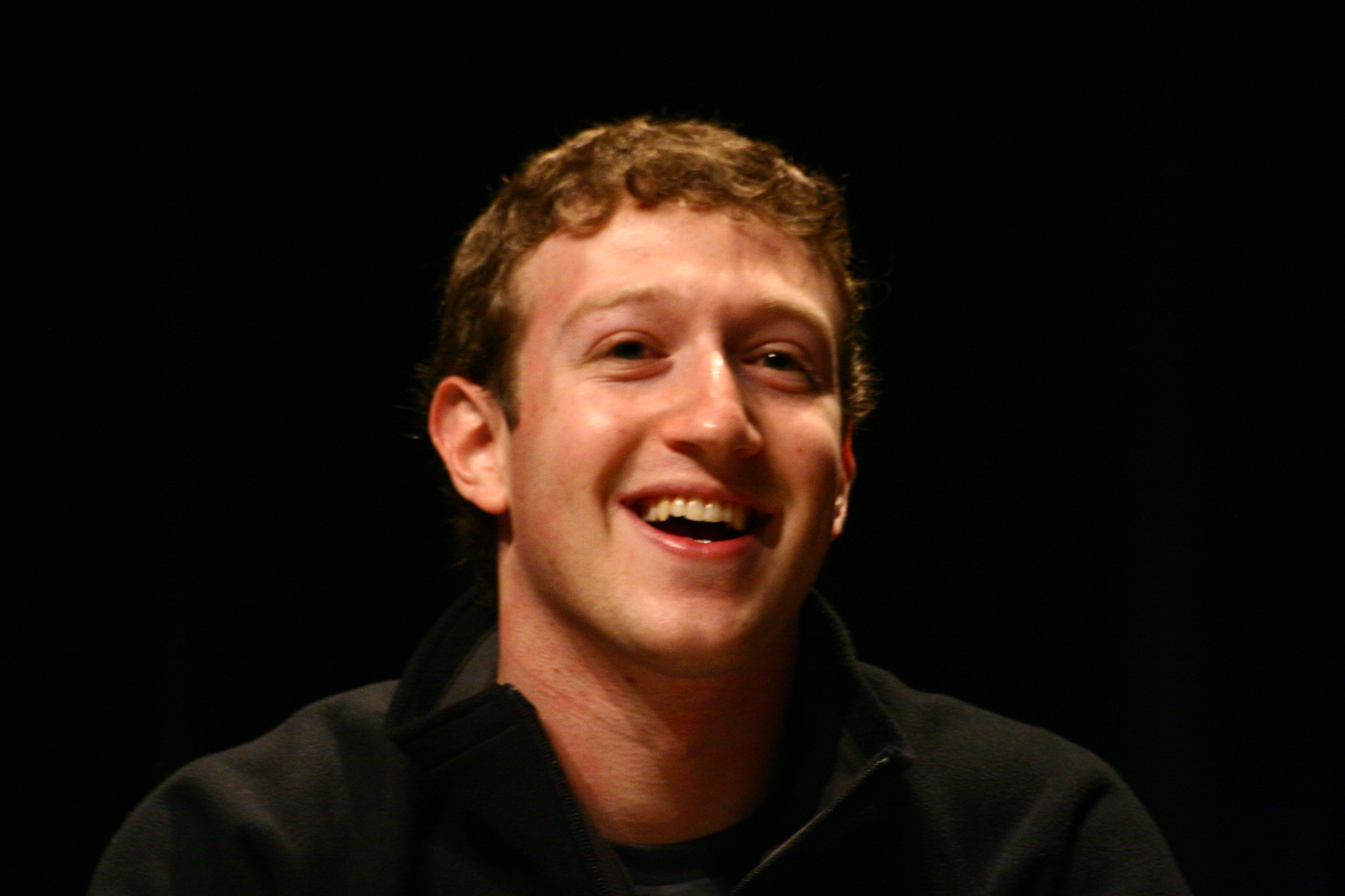 Mark Zuckerberg at South by Southwest in 2008.